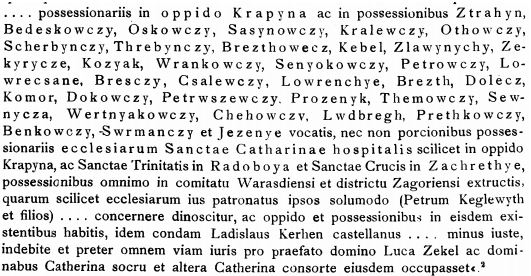 Keglevic possesions 16th century